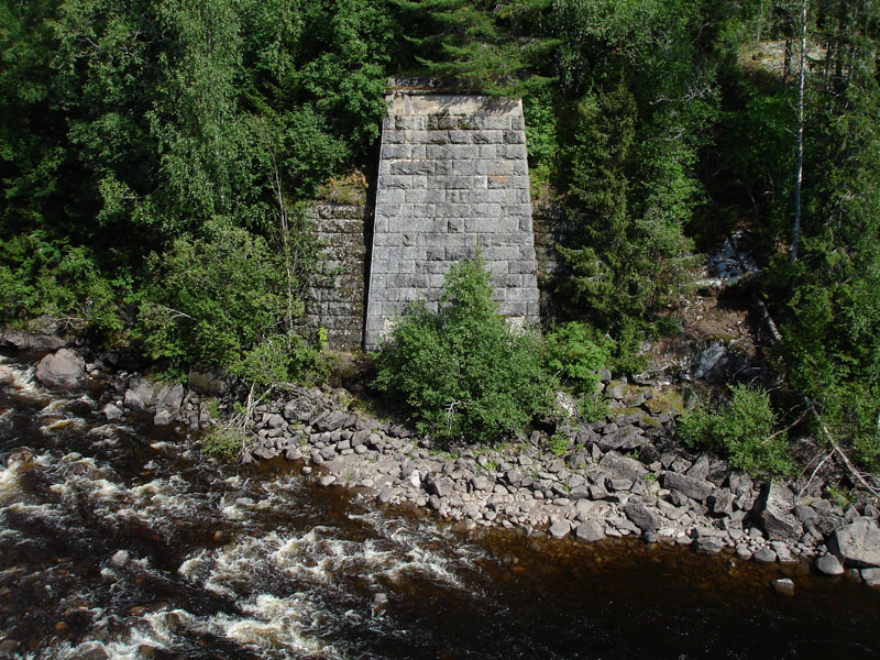 Remains of the former bridge over the river Gideälven at Gideåbacka in Västernorrland county, northern Sweden.